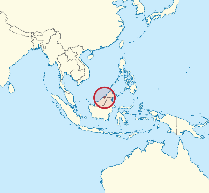 Location of XY (see filename) in the world. See also List of countries spanning more than one continent